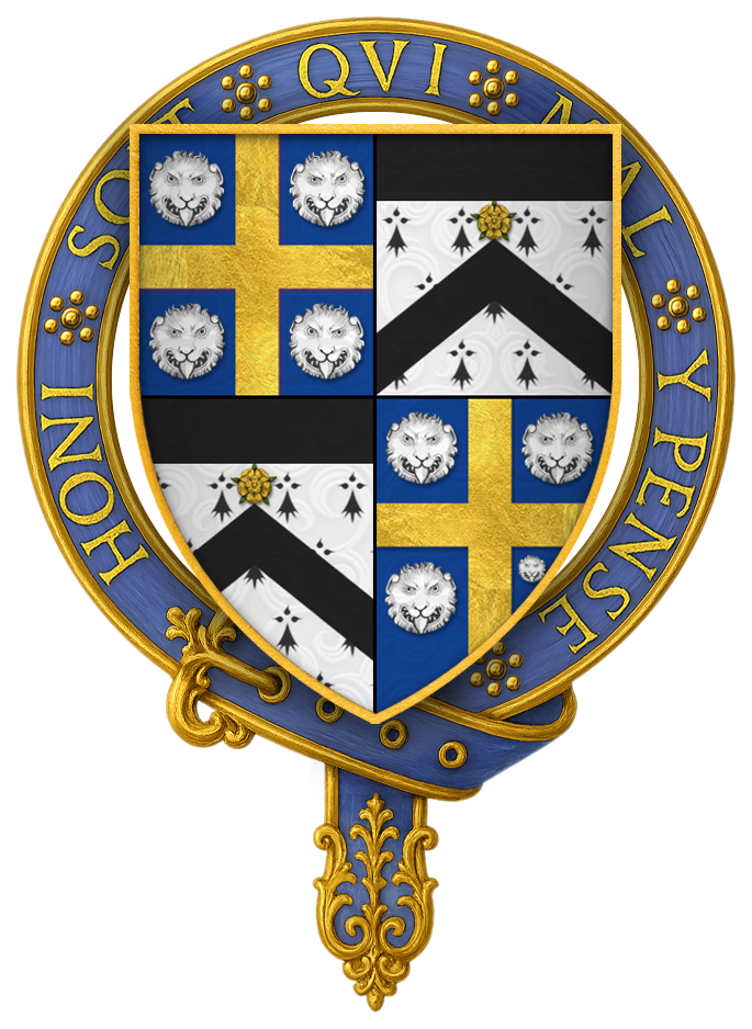 Coat of arms of Sir William Kingston, KG See stall plate of Sir William Kingston, KG in St. George's Chapel. The plate is currently viewable online at the Royal Collection Trust website.